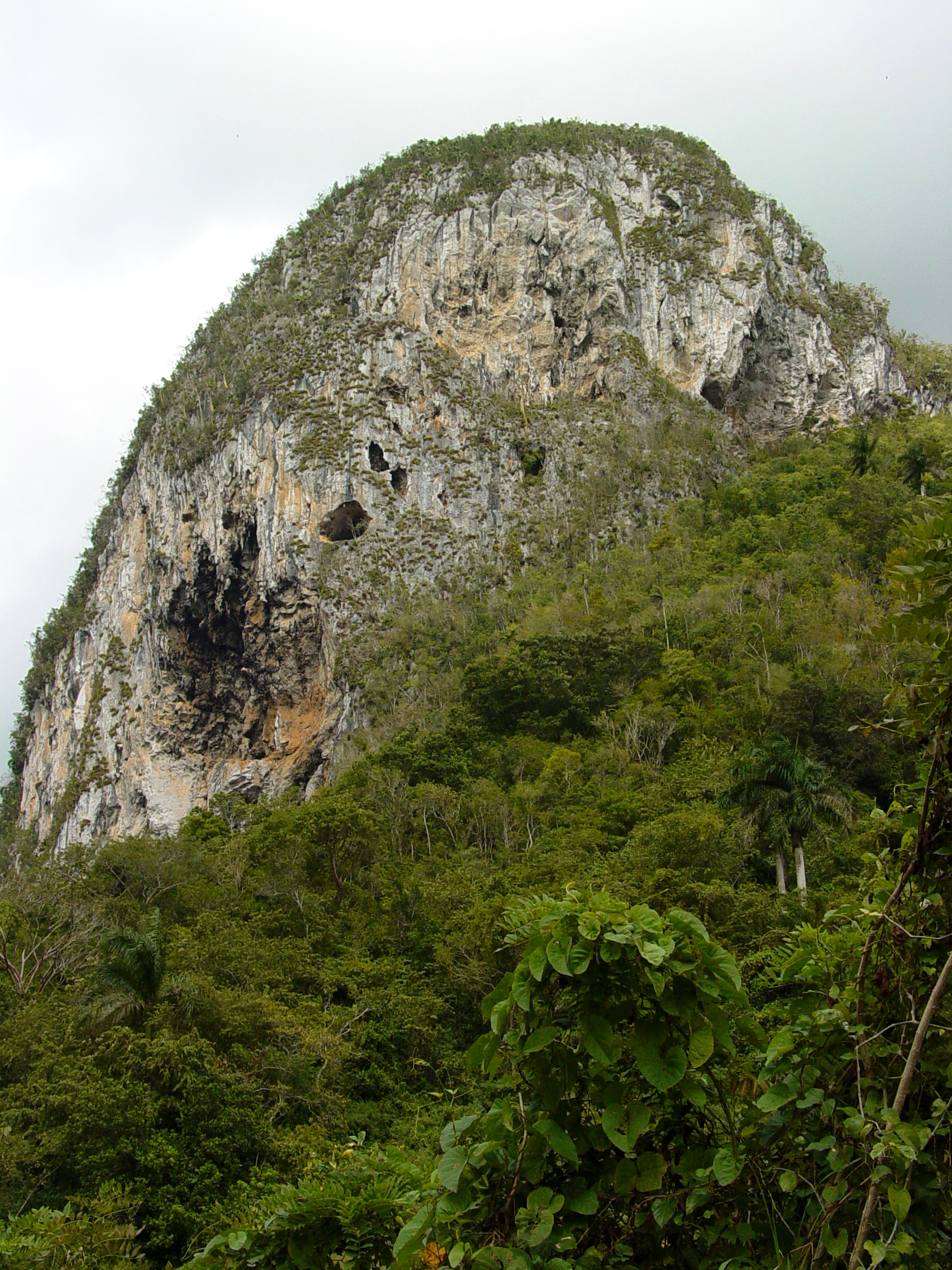 Karst mountain in Pinar del Rio Province, Cuba. December 2006.